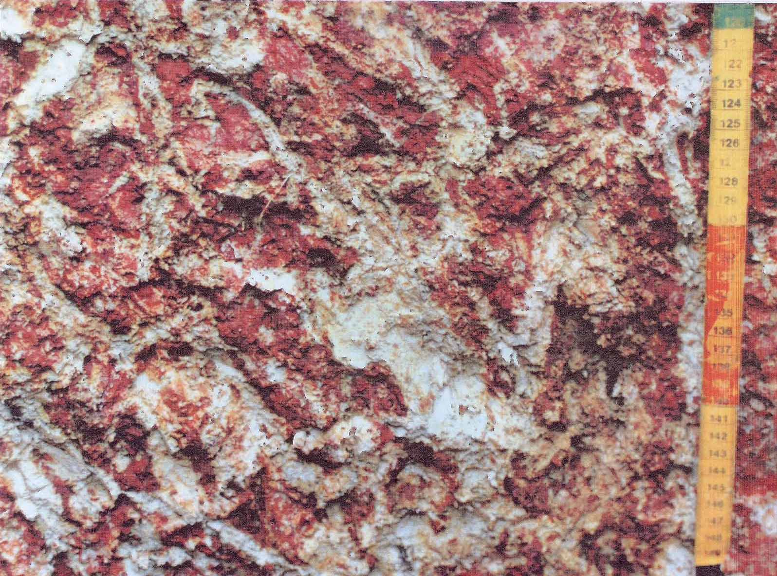 Iron mottling in subsoil of a ferric Acrisol, Worthy Park, St Catherine, Jamaica